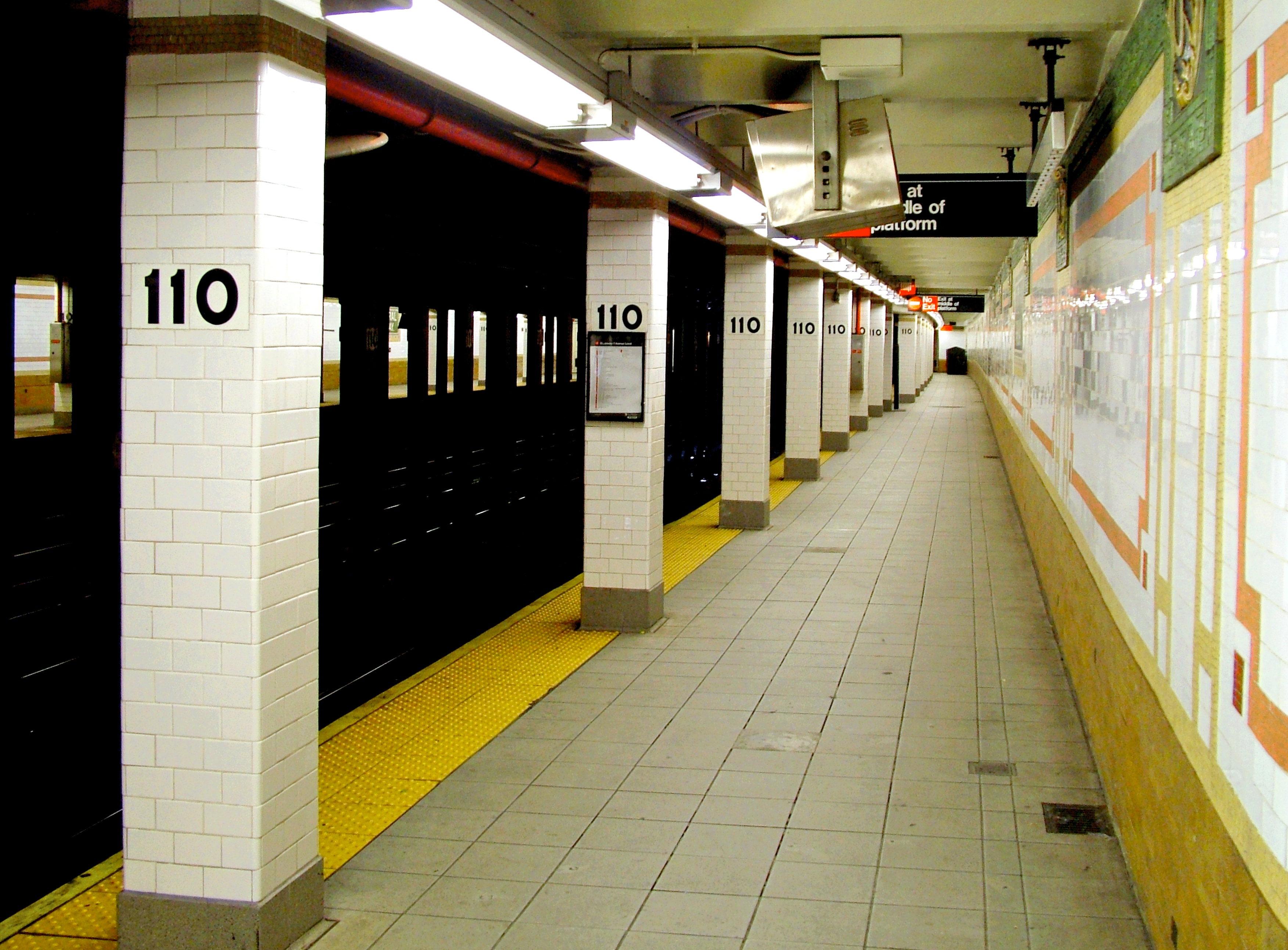 Side platform of Cathedral Parkway (110 St.) Station at the IRT Broadway-Seventh Avenue Line. Such a row of supports just in front of the platform edge is somewhat characteristic for an original IRT station. Far behind, they are suddenly set back. This results from the platform extensions during the 1950s, which already had the wider triborough profile in mind. Camera surveillance and the newest generation of fluorescent lights were typical for renovations during the 1990s and 2000s. On the upper right, there is one of the IRT's original splendid station name tablets dating from 1904.